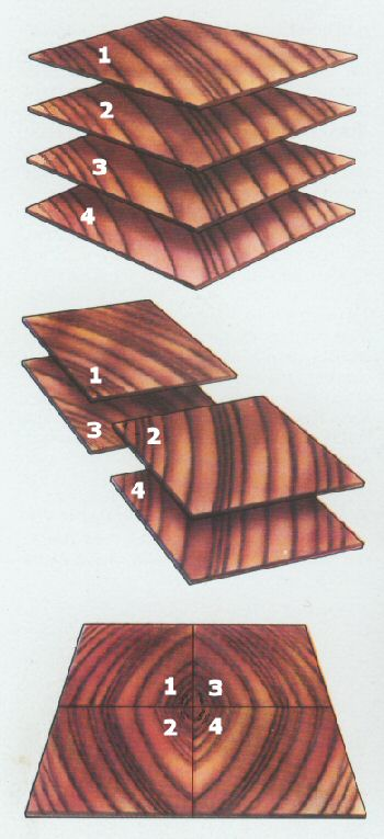 Fig.B: Top: The sheet's come of the machine in the order that they are cut. Centre: Arrange them top side up. Bottom: Turn over 1 and 2